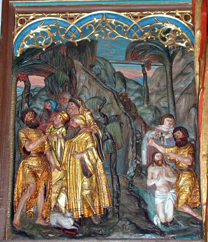 Altar of Usterling Church. Detail of left inner altar wing. Oldest known deptction of thekarst spring "Growing Rock" at Usterling